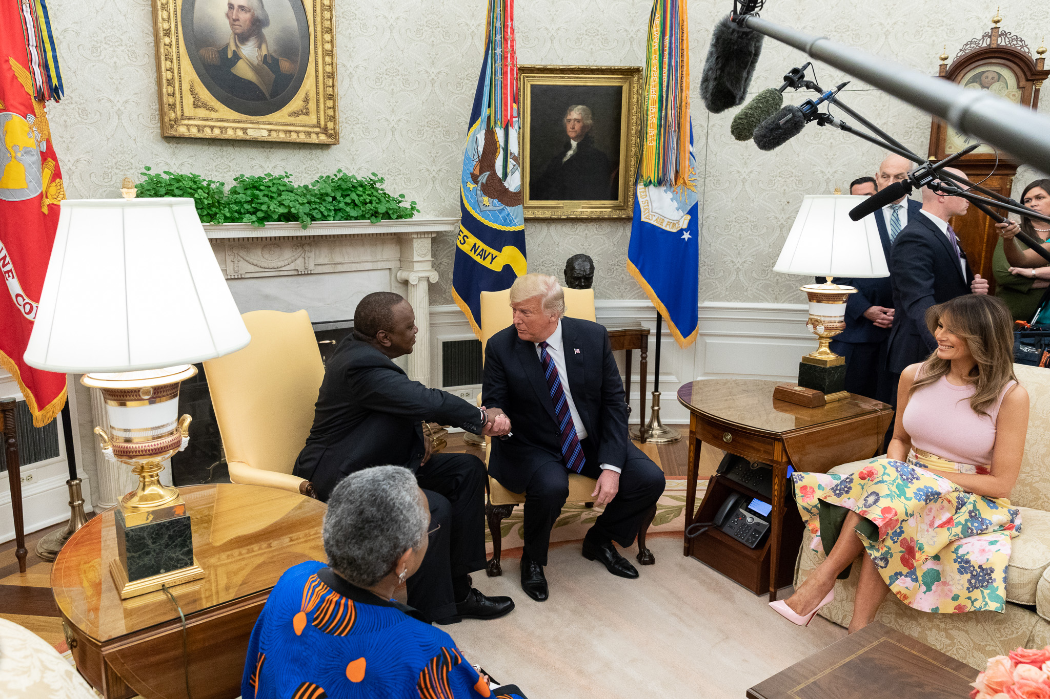 President Donald J. Trump and the President of the Republic of Kenya are joined by First Lady Melania Trump and Mrs. Kenyatta in the Oval Office | August 27, 2018 (Official White House Photo by Andrea Hanks).